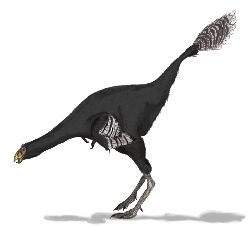 Life restoration of the feathered dinosaur Caudipteryx zoui.